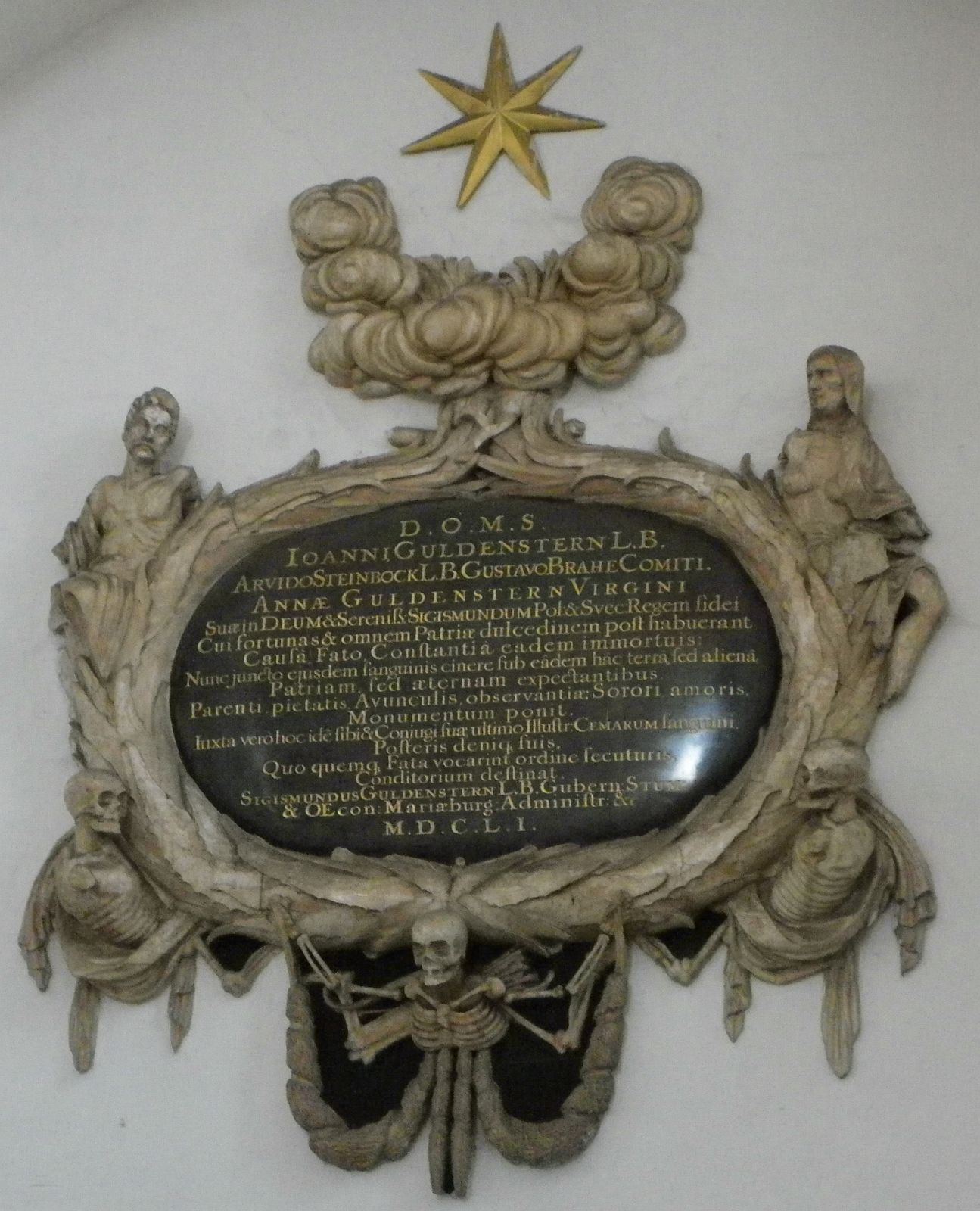 Gdansk, Poland, St. Mary's Church - Epitaph on Johann Guldenstern (Johan Nilsson Gyllenstierna) and his family